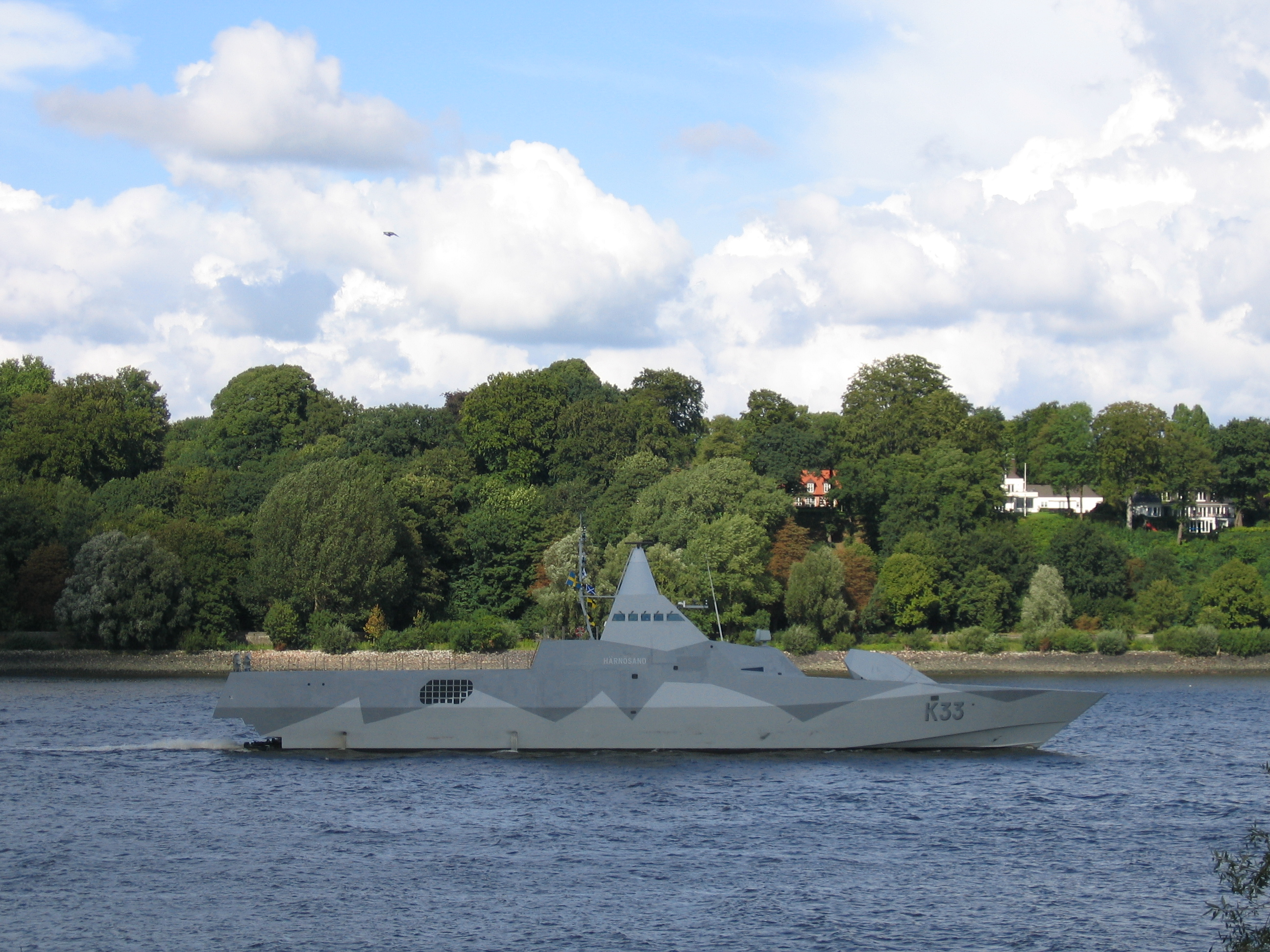 HMS Härnösand of the Swedish navy in Hamburg.